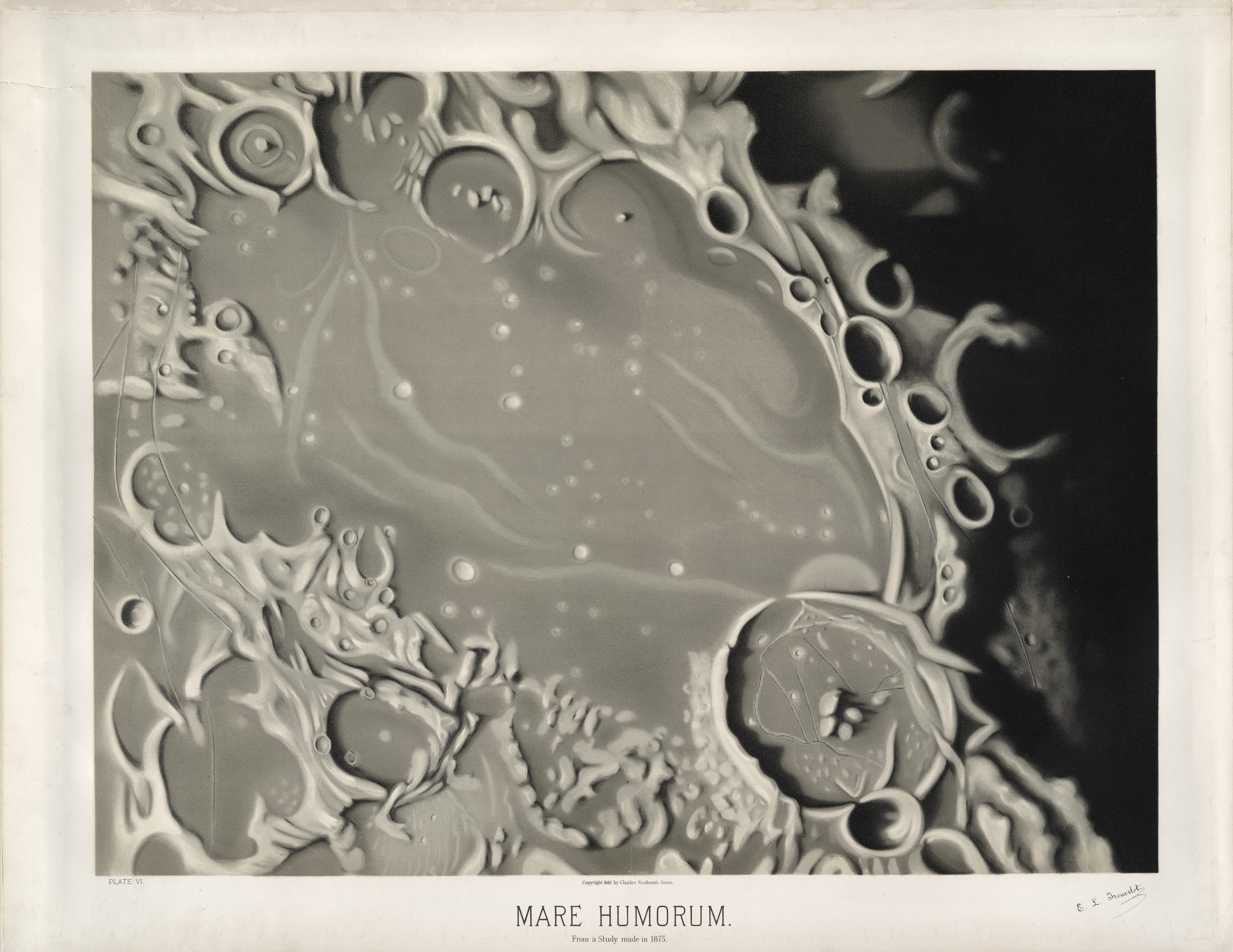 Mare Humorum. From a study made in 1875. (Plate VI from The Trouvelot Astronomical Drawings 1881)